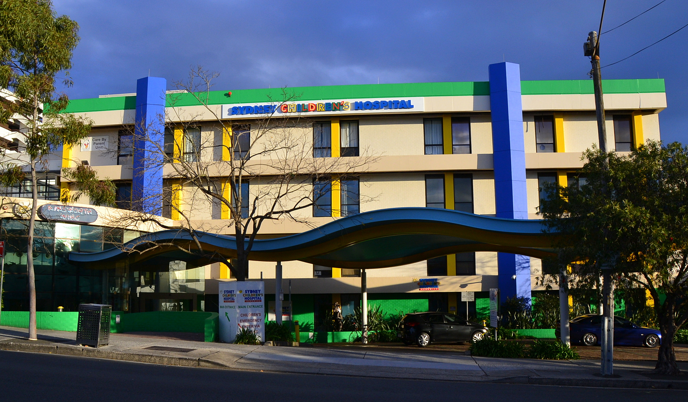 Sydney Childrens Hospital, Randwick, NSW